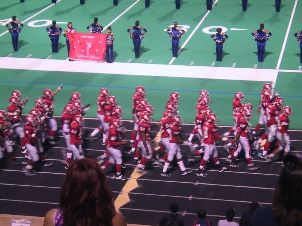 Football Team Walking out of the locker room before a football game